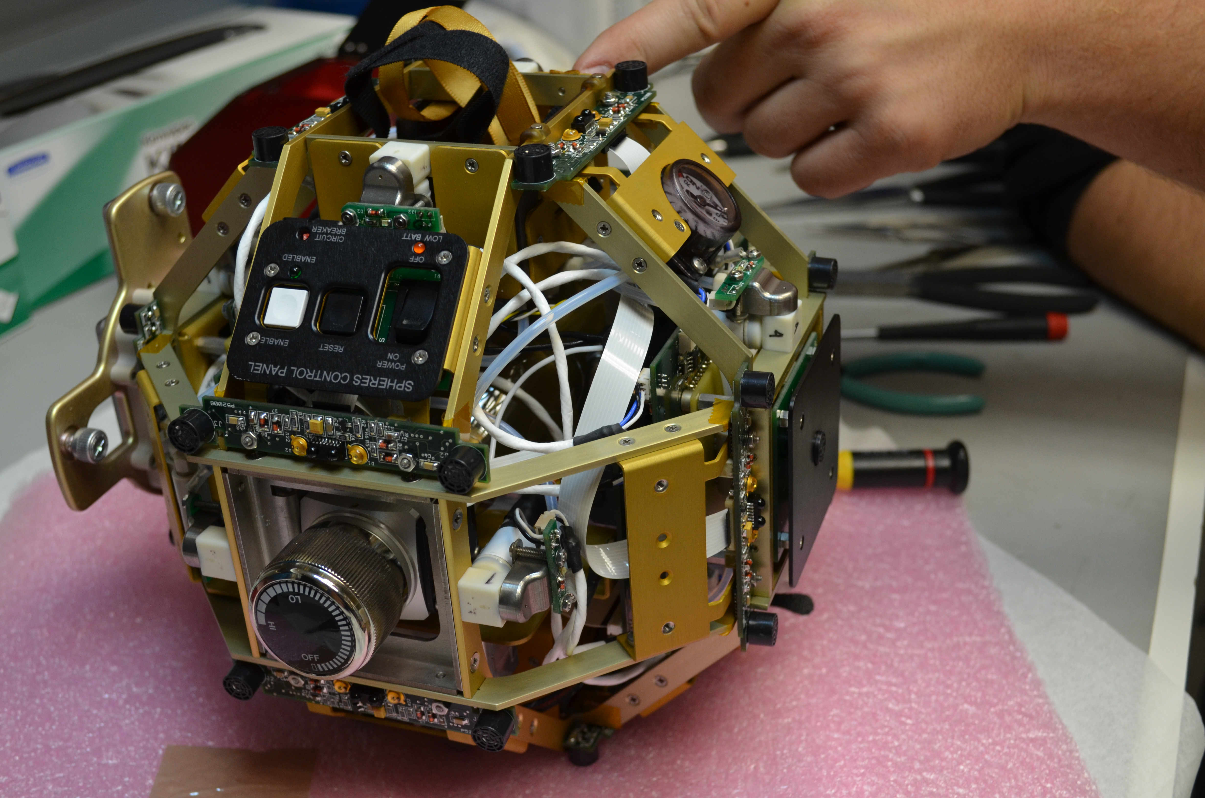 Interior components of a SPHERES module.